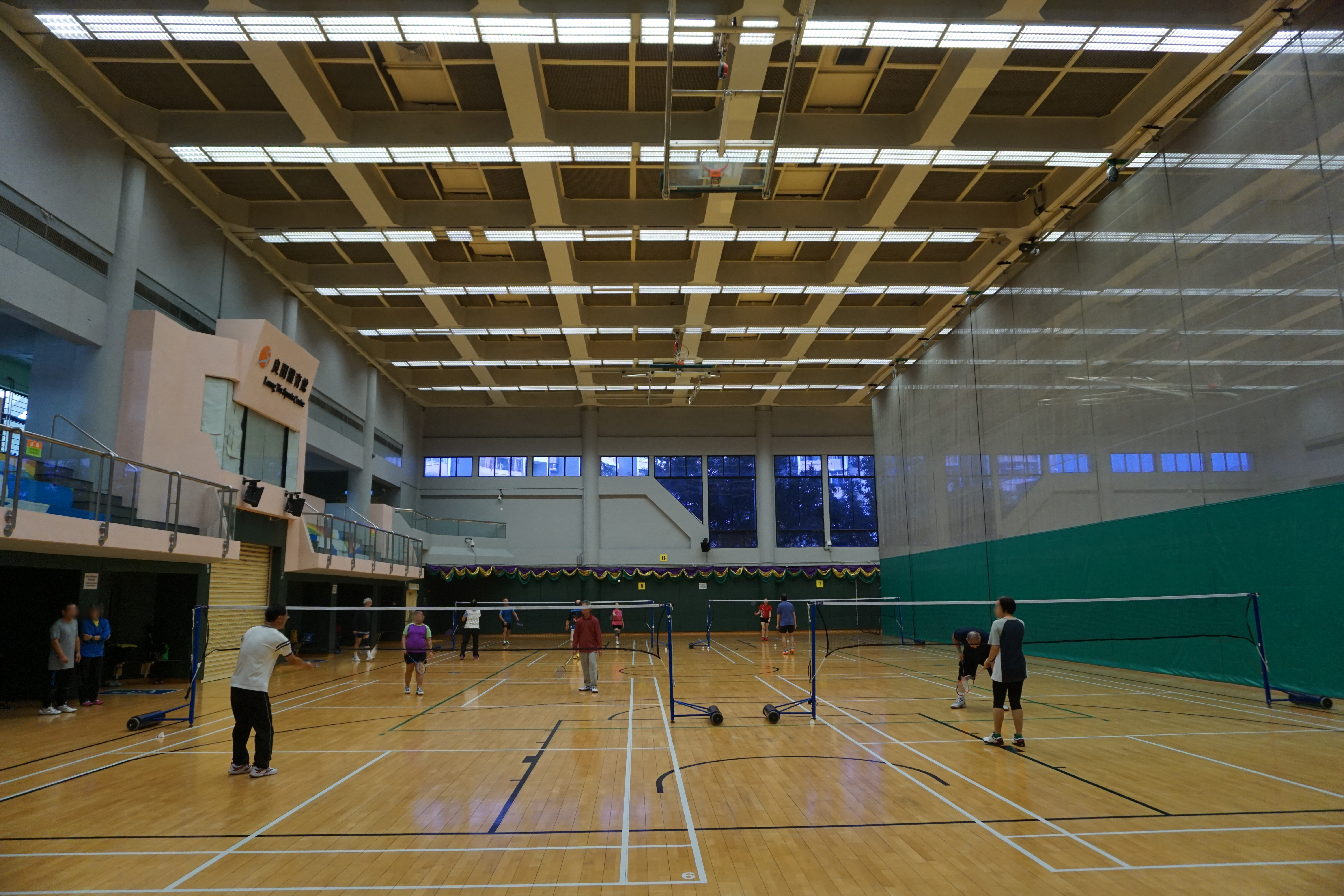 Leung Tin Sports Centre in Tuen Mun, Hong Kong.